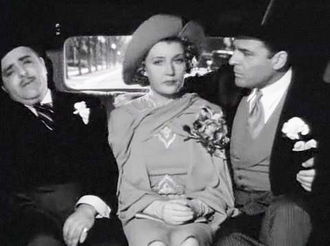 Screenshot of Akim Tamiroff, Muriel Angelus and Brian Donlevy from the original trailer for the film The Great McGinty